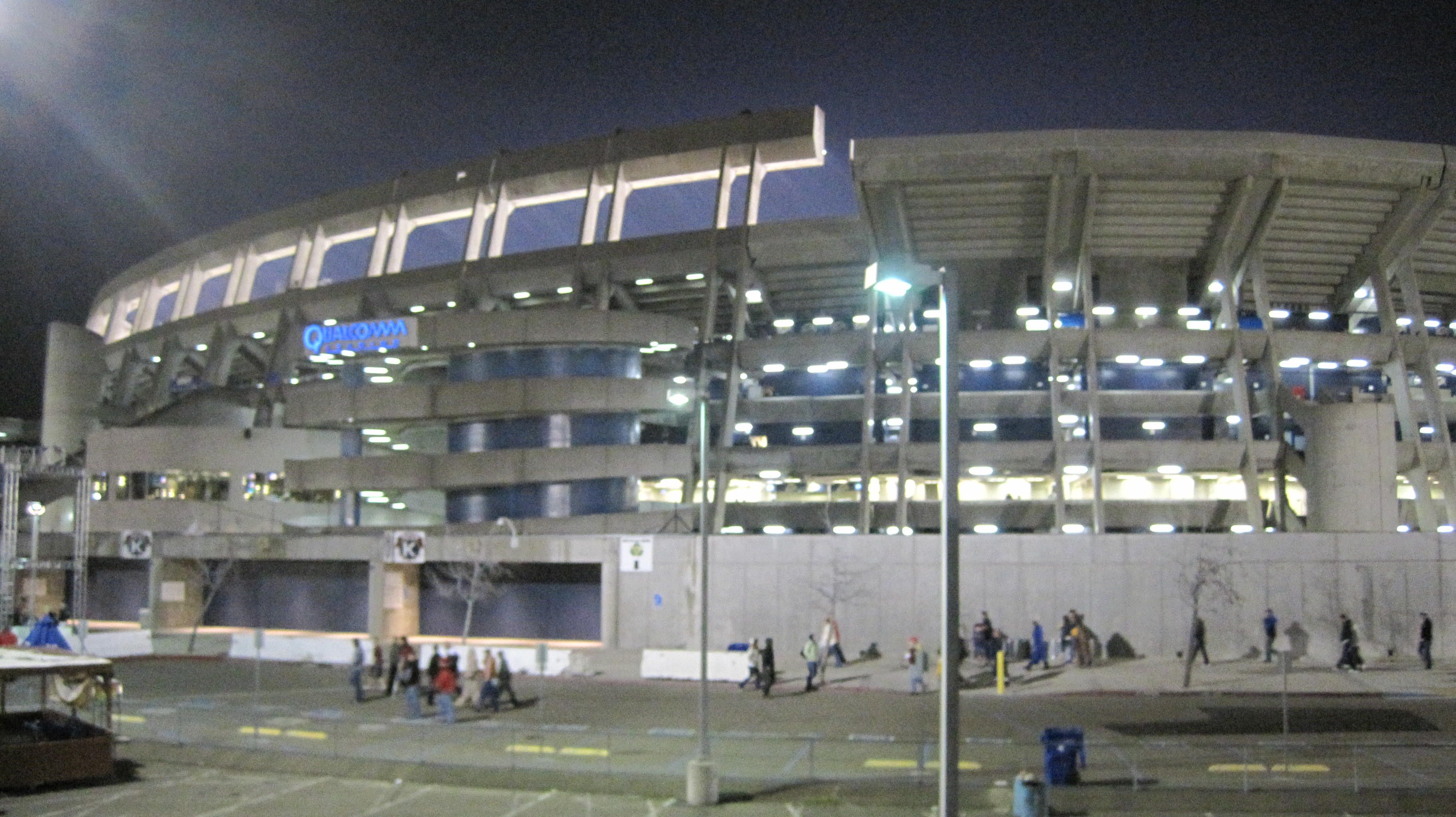 Qualcomm Stadium after the 2009 Poinsettia Bowl between the Utah Utes and the California Golden Bears. The Utes won 37-27.